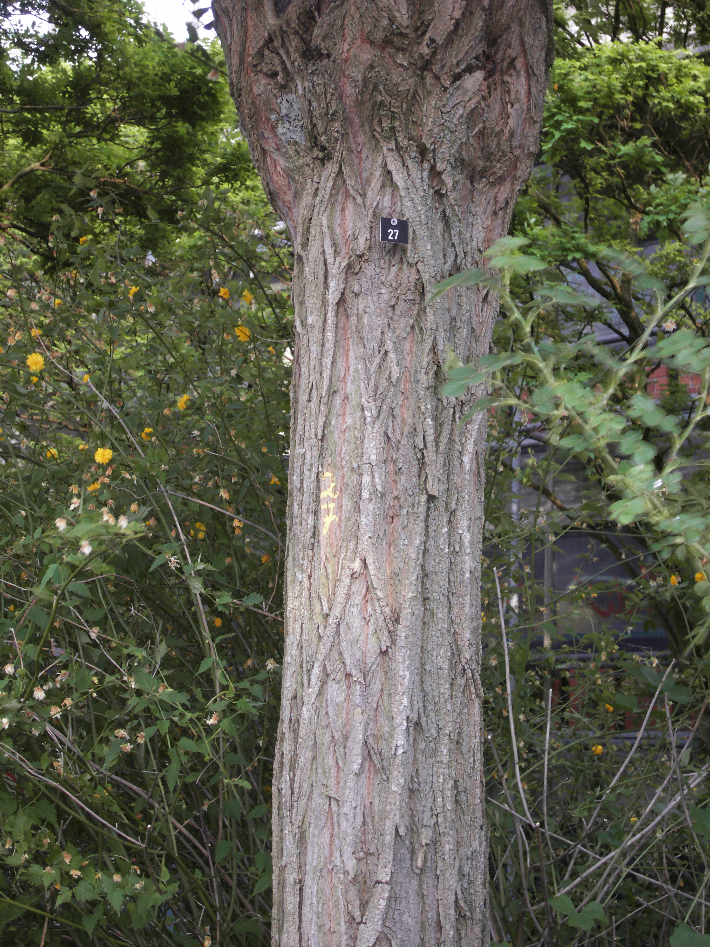 Tree with number